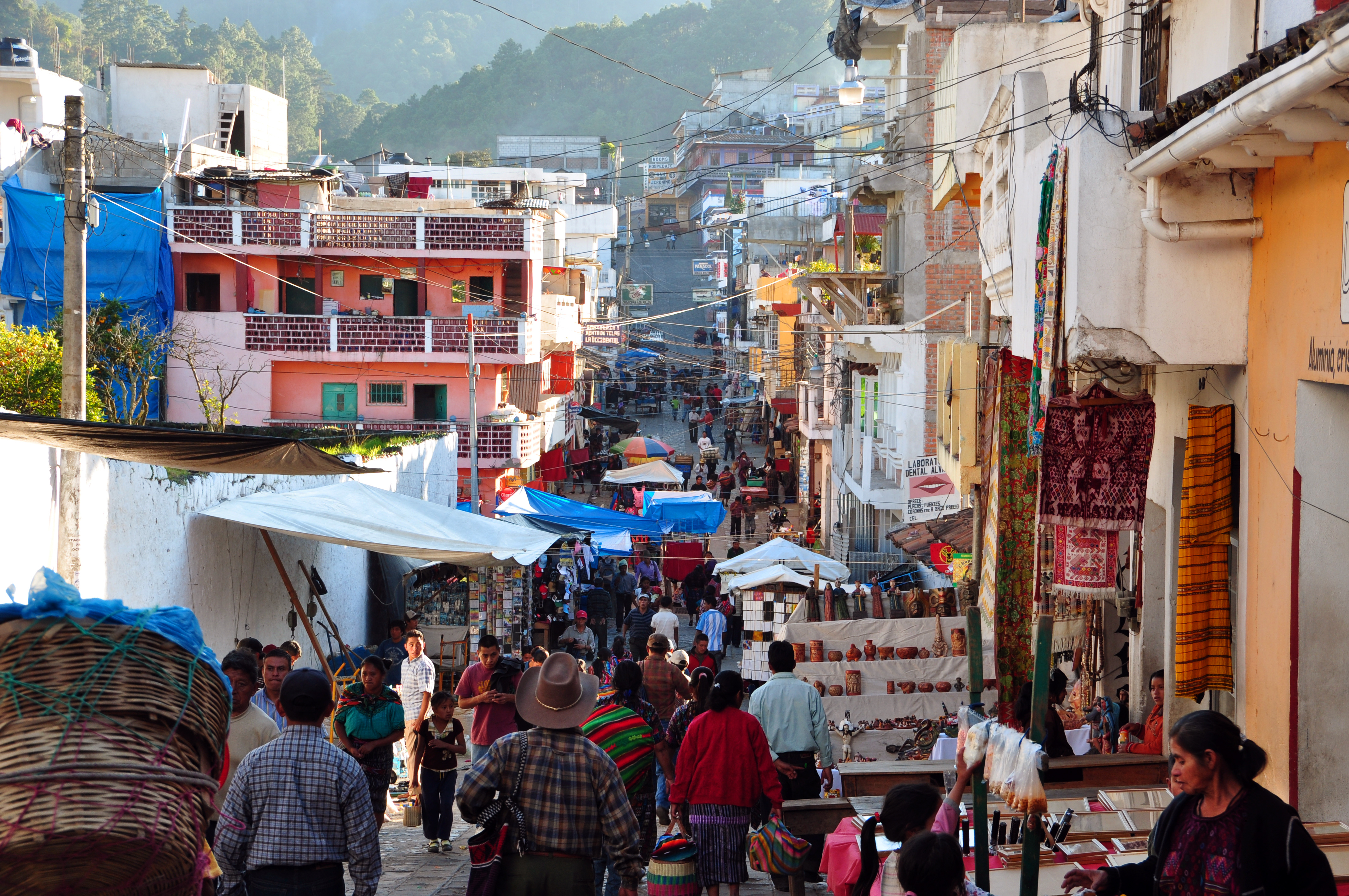 Chichicastenango Market, Guatemala, 2009